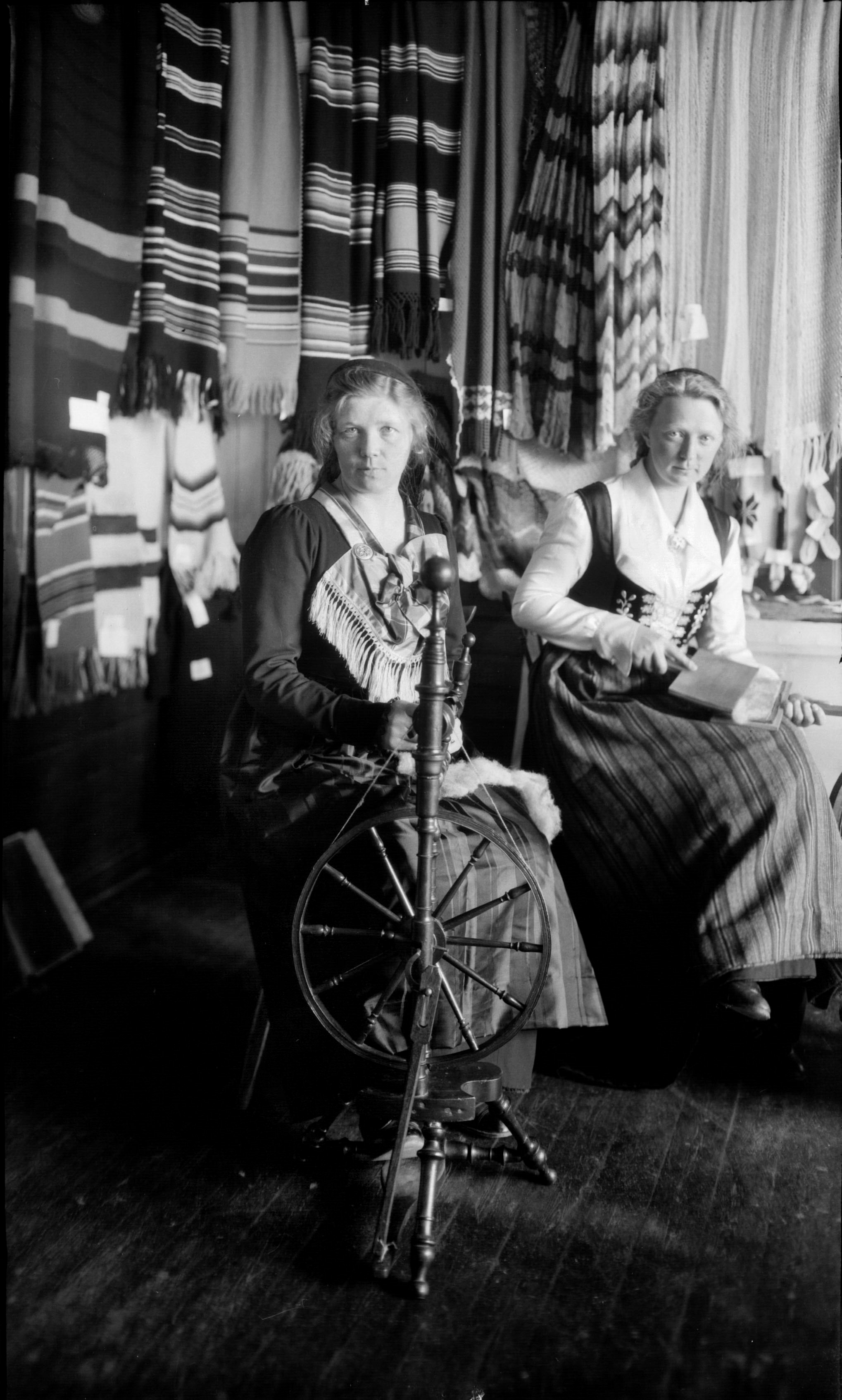 Handcraft exposition show in Reykjavík in 1911. Two women show how to make clothes from wool.